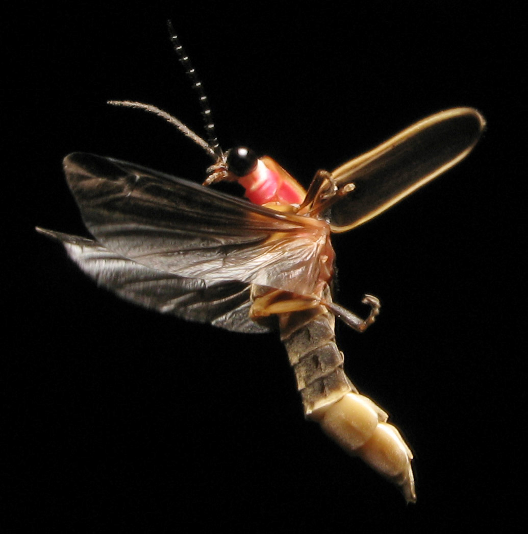 Photinus pyralis, common eastern USA firefly